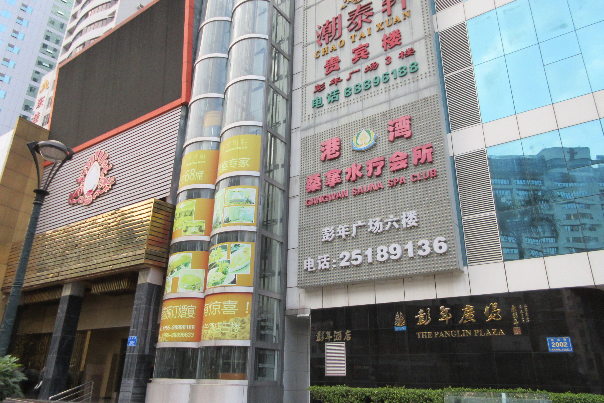 SZ 深圳 Shenzhen Luohu 彭年酒店 Panglin Hotel front facade 嘉宾路 Jiabin Road 東門路zh:東門南路 Dongmen South Road in March 2017